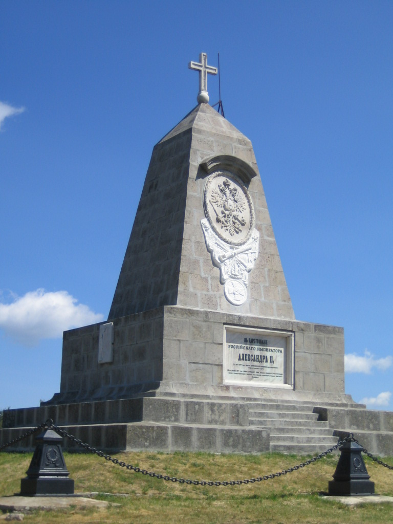 Memorial of Alexander II, Bugaria.